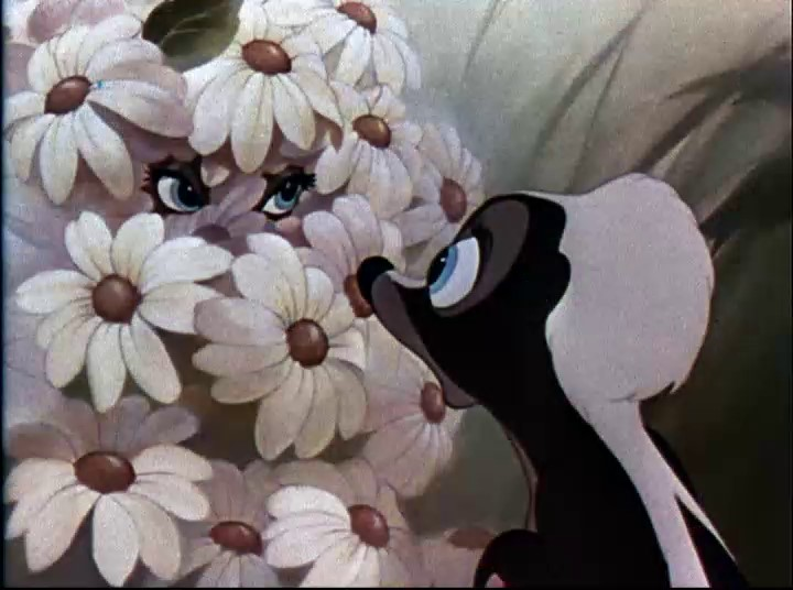 Screenshot of Flower from the trailer for the film Bambi.